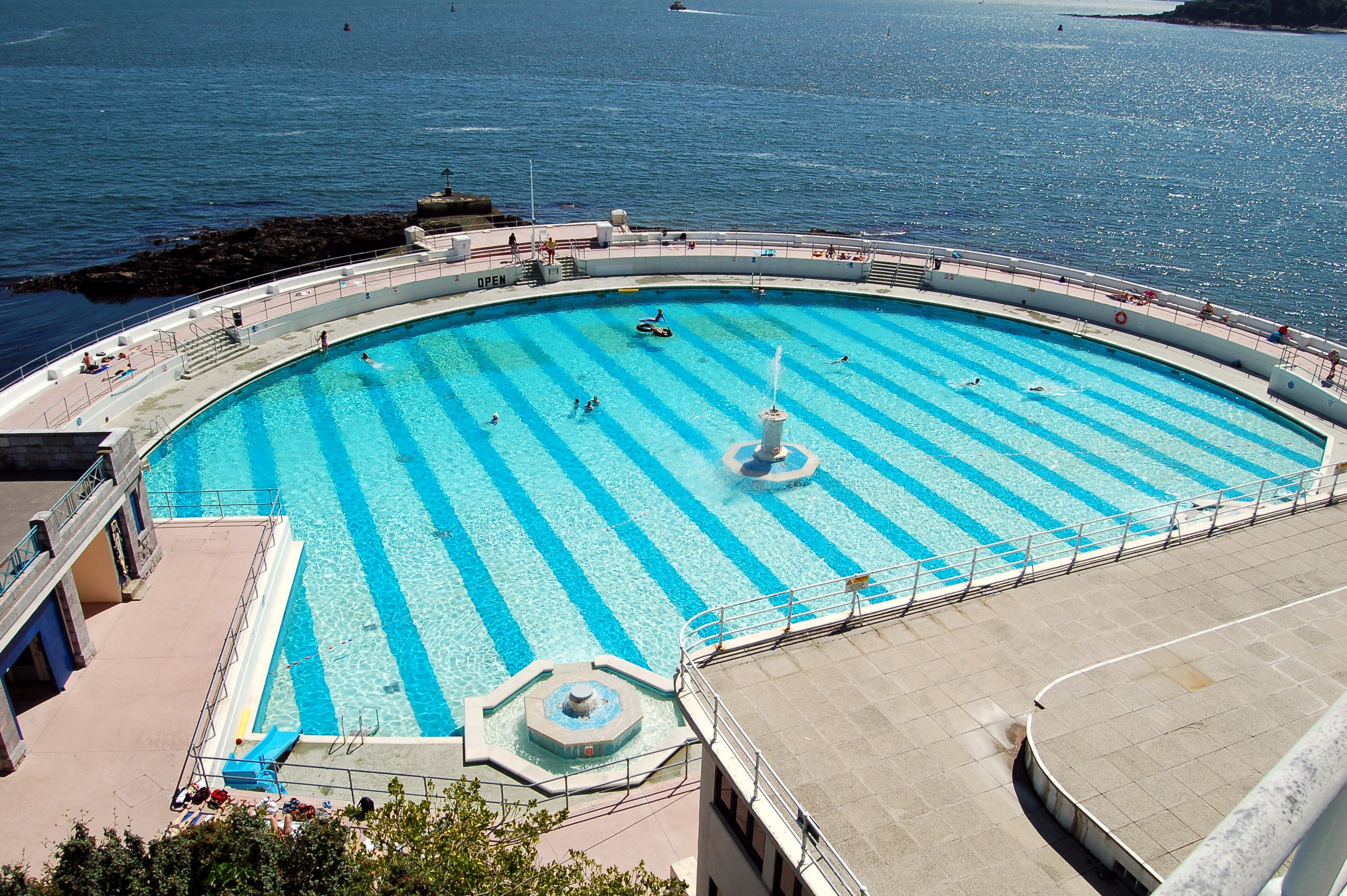 View Tinside Pool in Plymouth, UK from the road above the pool on a sunny summer day.